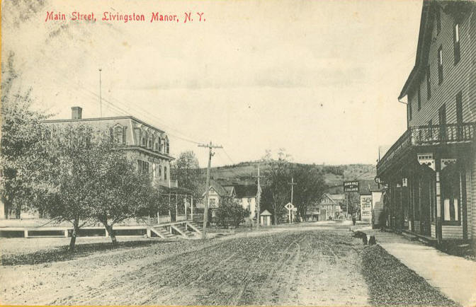 Postcard: Main Street, Livingston Manor, New York, 1909 postmark Description: Store Web page states, "Mailed 1909 at Livington Manor."